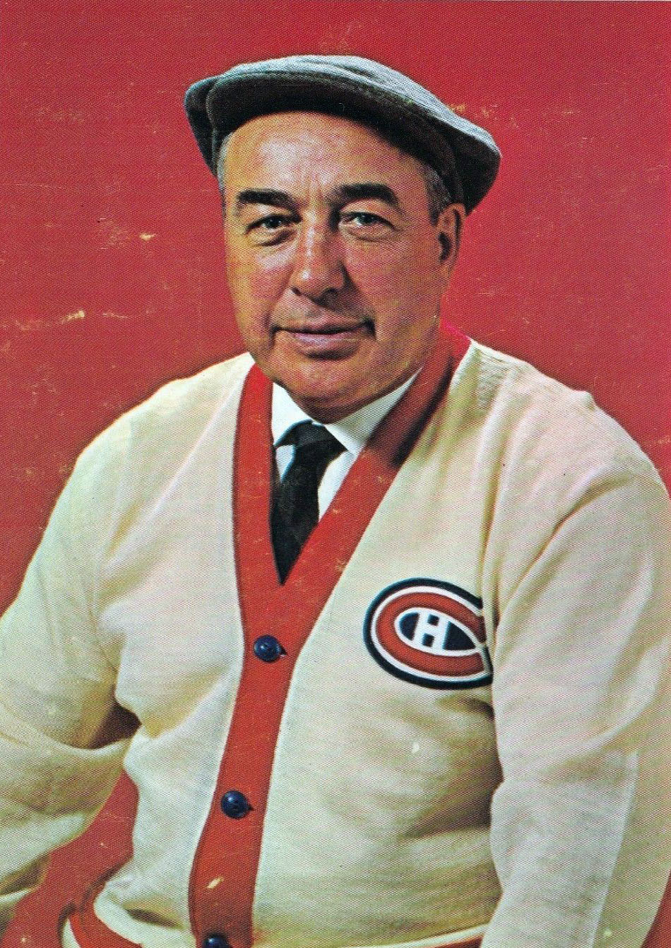 Trading card photo of Toe Blake as coach of the Montreal Canadiens. These cards were printed on the backs of Chex cereal boxes in the US and Canada from 1963 to 1965. Those collecting the cards cut them from the back of the boxes.